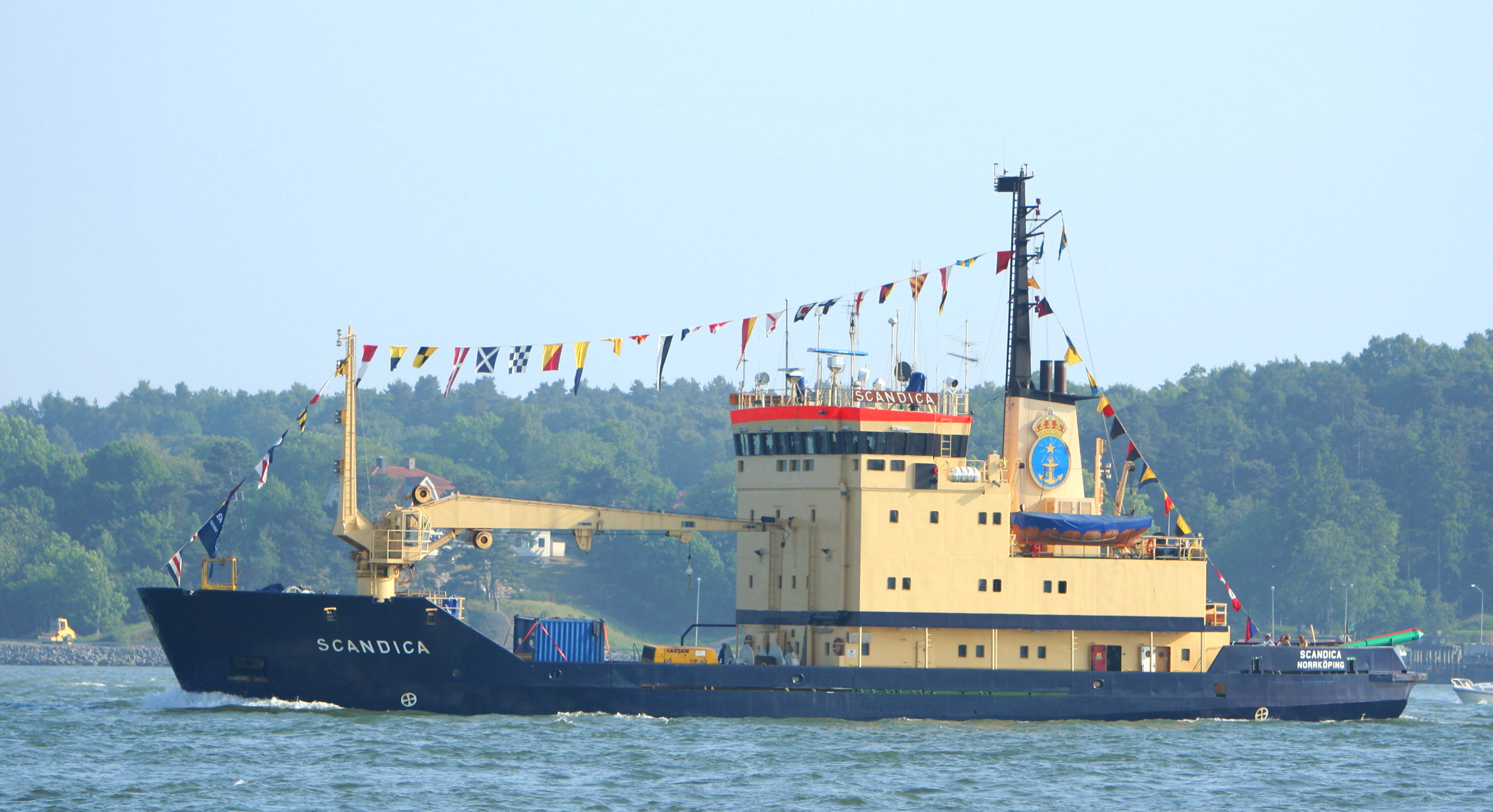 Scandica, Swedish Maritime Administration.